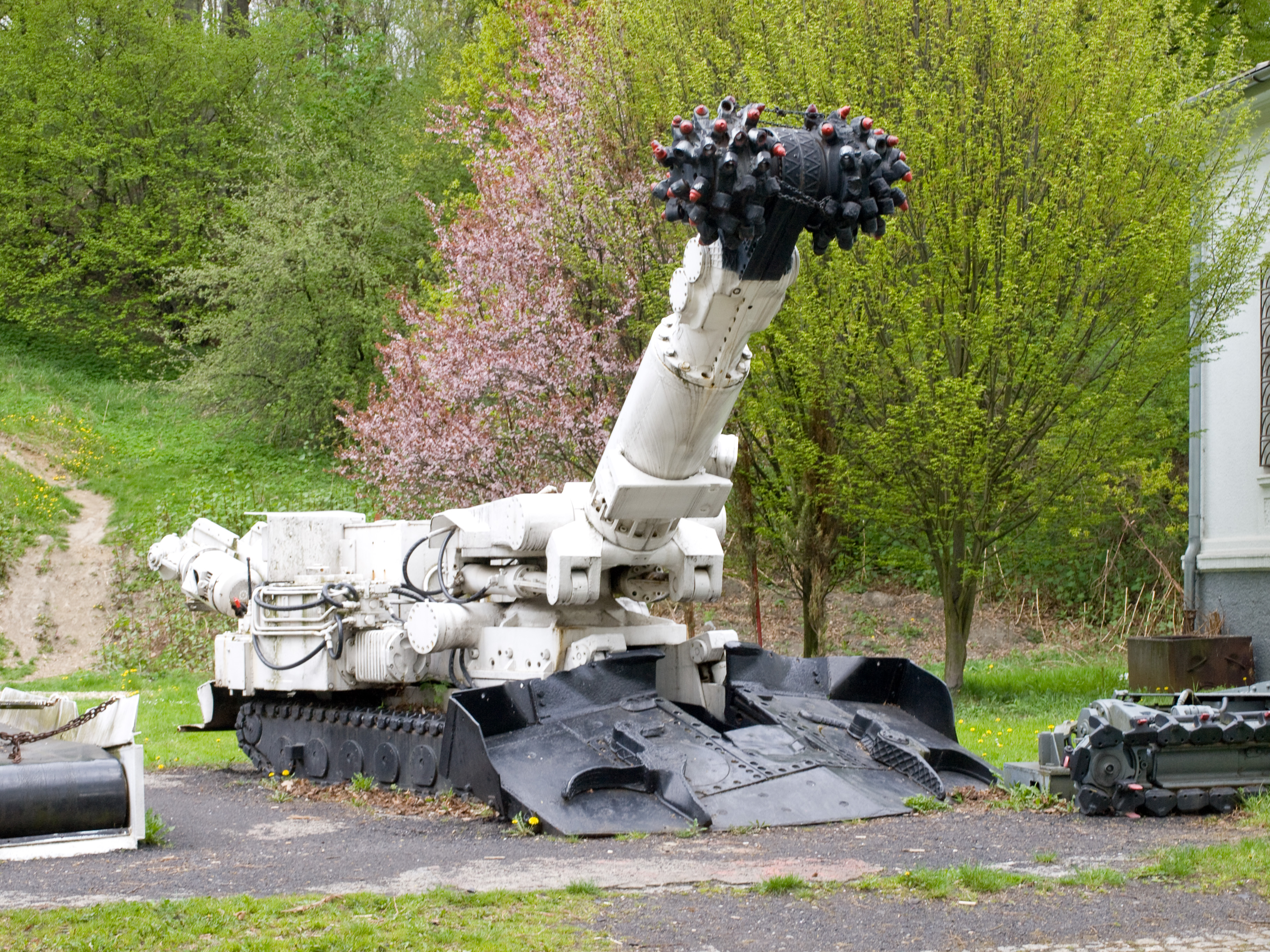 Razící stroj, Mining museum in Ostrava